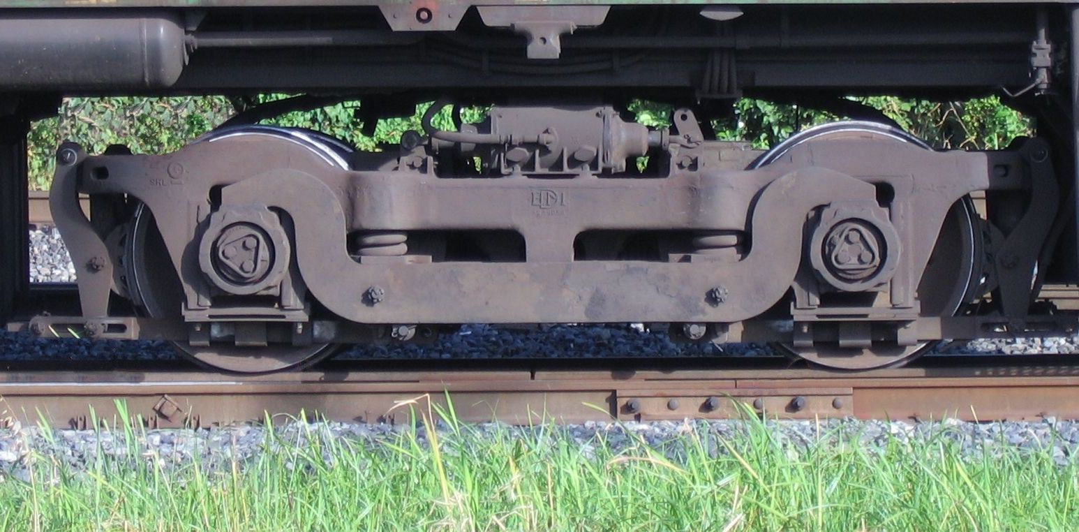 Side profile of the AAR type switcher truck.